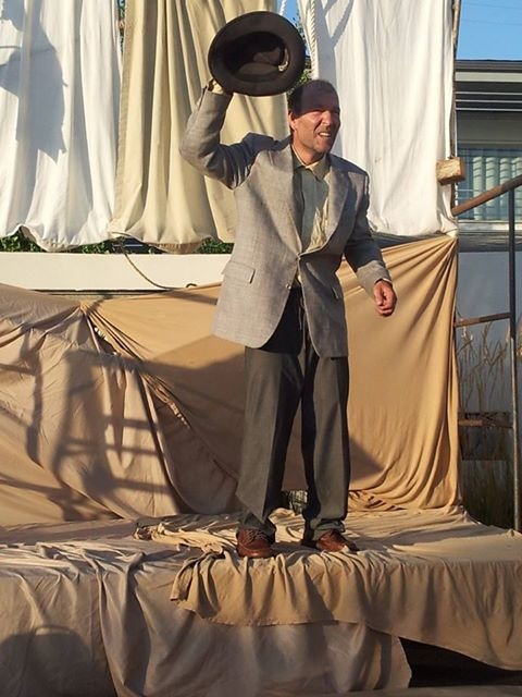 A production of Act Without Words I by Samuel Beckett at the Modern Hotel on First Thursday in Boise, Idaho.